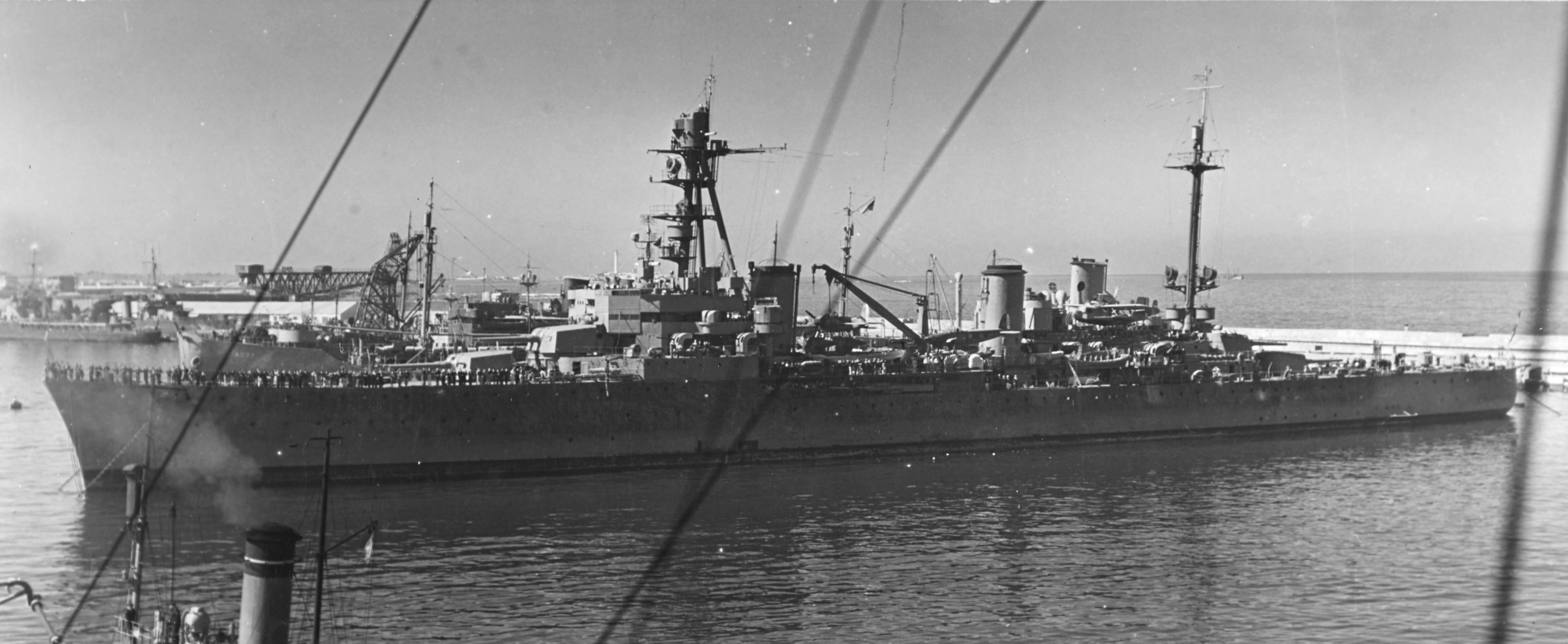 The French heavy cruiser Tourville at Casablanca, Morocco, circa August-November 1943. She has three aircraft on board: a Loire 130 flying boat on the catapult between her after stack and her mainmast, and two Latécoère 298 floatplanes stowed between the stacks. The U.S. Navy fleet oiler USS Cossatot (AO-77) is immediately beyond Tourville. A colonial sloop (either La Grandière or Savorgnan de Brazza is partially visible in the left distance. The ship beyond the sloop may be the destroyer Albatros, damaged during the U.S. landings at Casablanca on 8 November 1942.